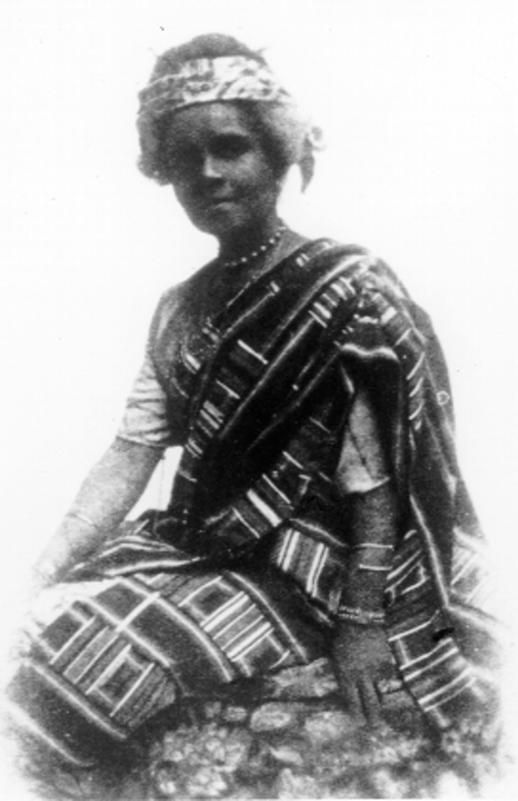 Adelaide Casely-Hayford wearing kente cloth. 1903